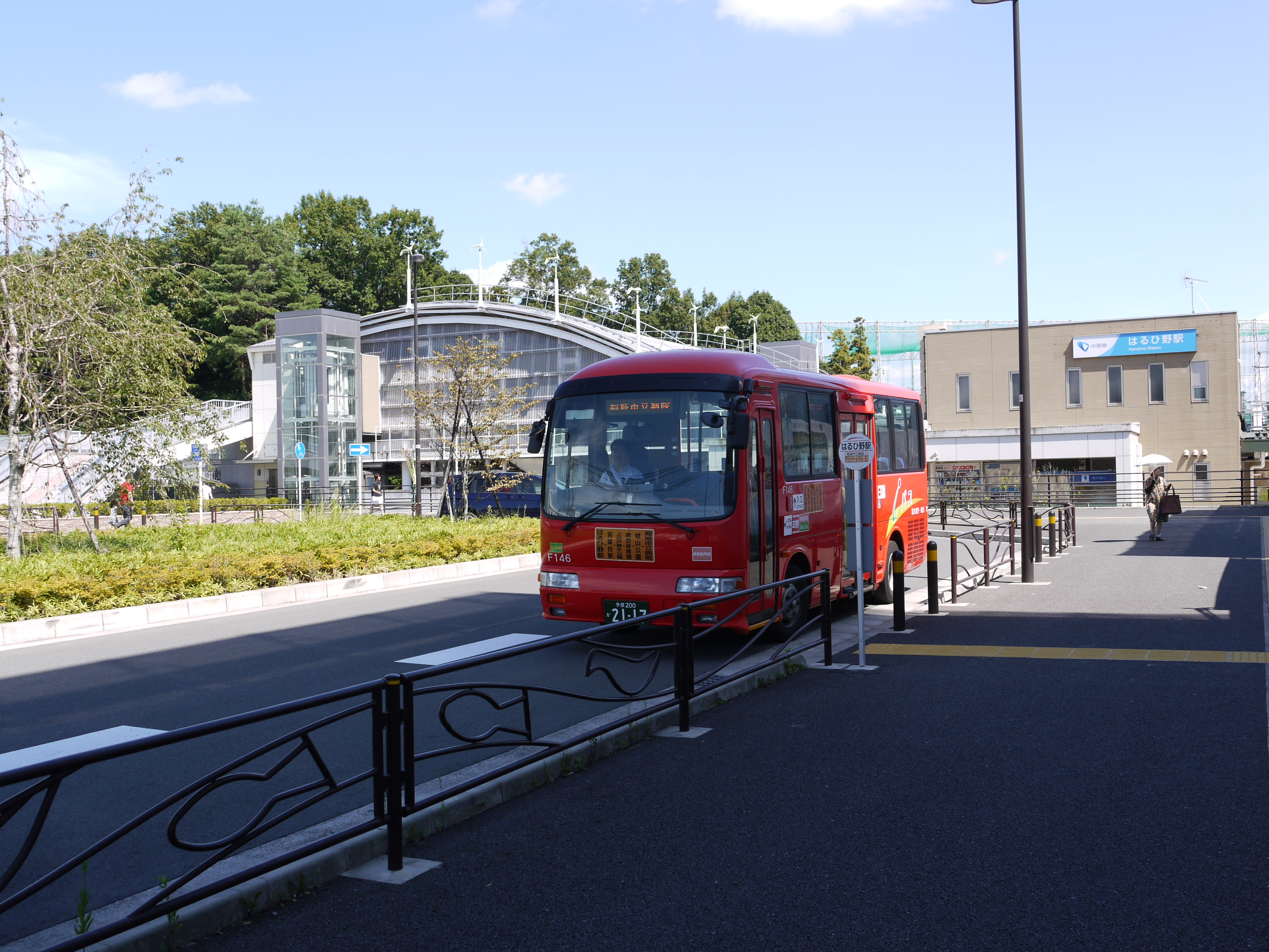 An i bus going into Haruhino Station South